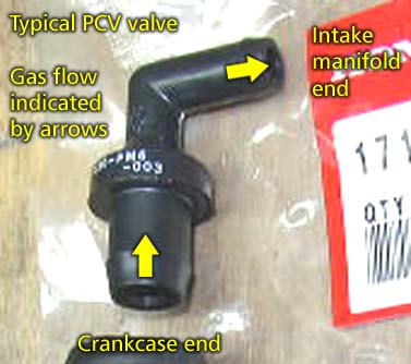 I made this file myself. It is a photo of a valve I purchased and installed on my car. Part of the name "Honda" is barely visible under some of the text in the picture. If I need to remove that, please let me know. Since I took the photograph and marked it up myself, I believe I have chosen the correct Licensing scheme from the drop-down box provided.